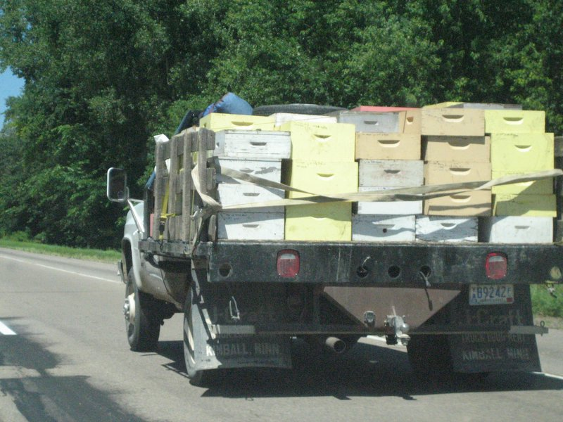 A load of supers.